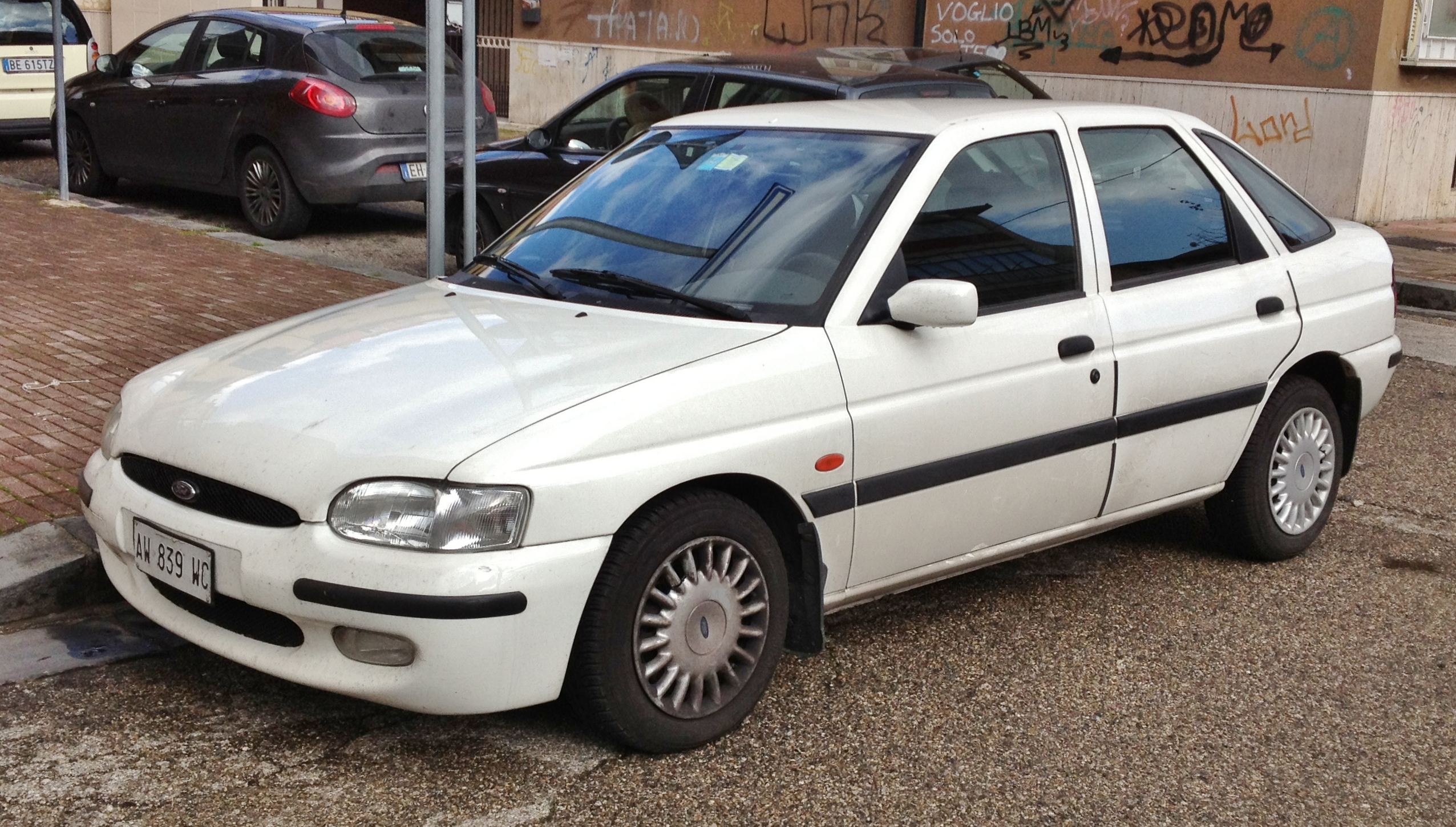 White Ford Escort VI in Avellino, Italy